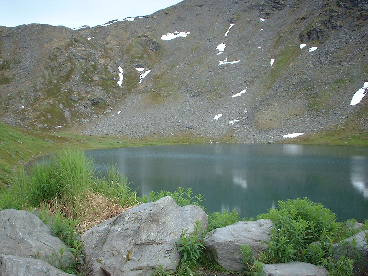 Summit Lake at Hatcher Pass, just above the Independence Mine State Historical Park and the headwater of Willow Creek